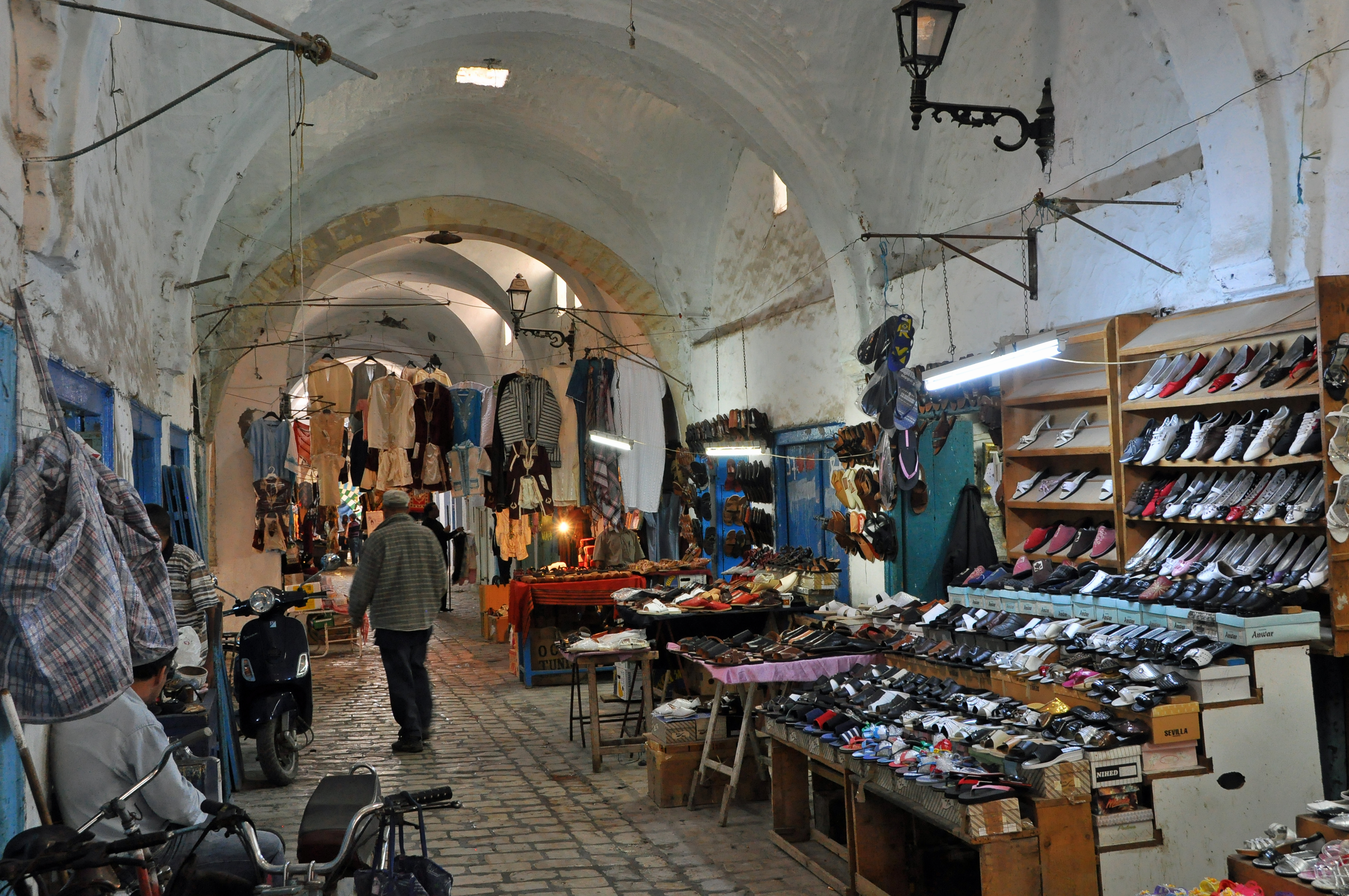 Nabeul (Tunisia): inside the souk